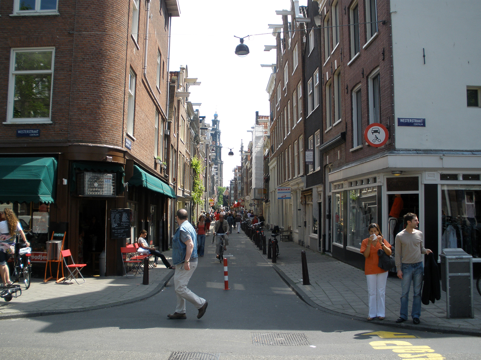 The Tweede Anjeliersdwarssstraat in the Jordaan district of Amsterdam, seen from the Westerstraat. Note the Westerkerk church in the background